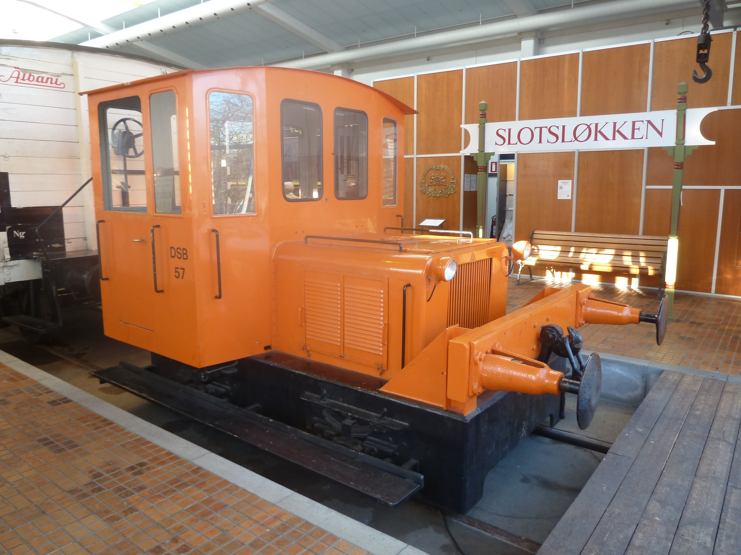 Diesel locomotive from DSB, traktor 57, now on Danmarks Jernbanemuseum. The locomotive took part in the danish movie Olsen-banden på sporet.